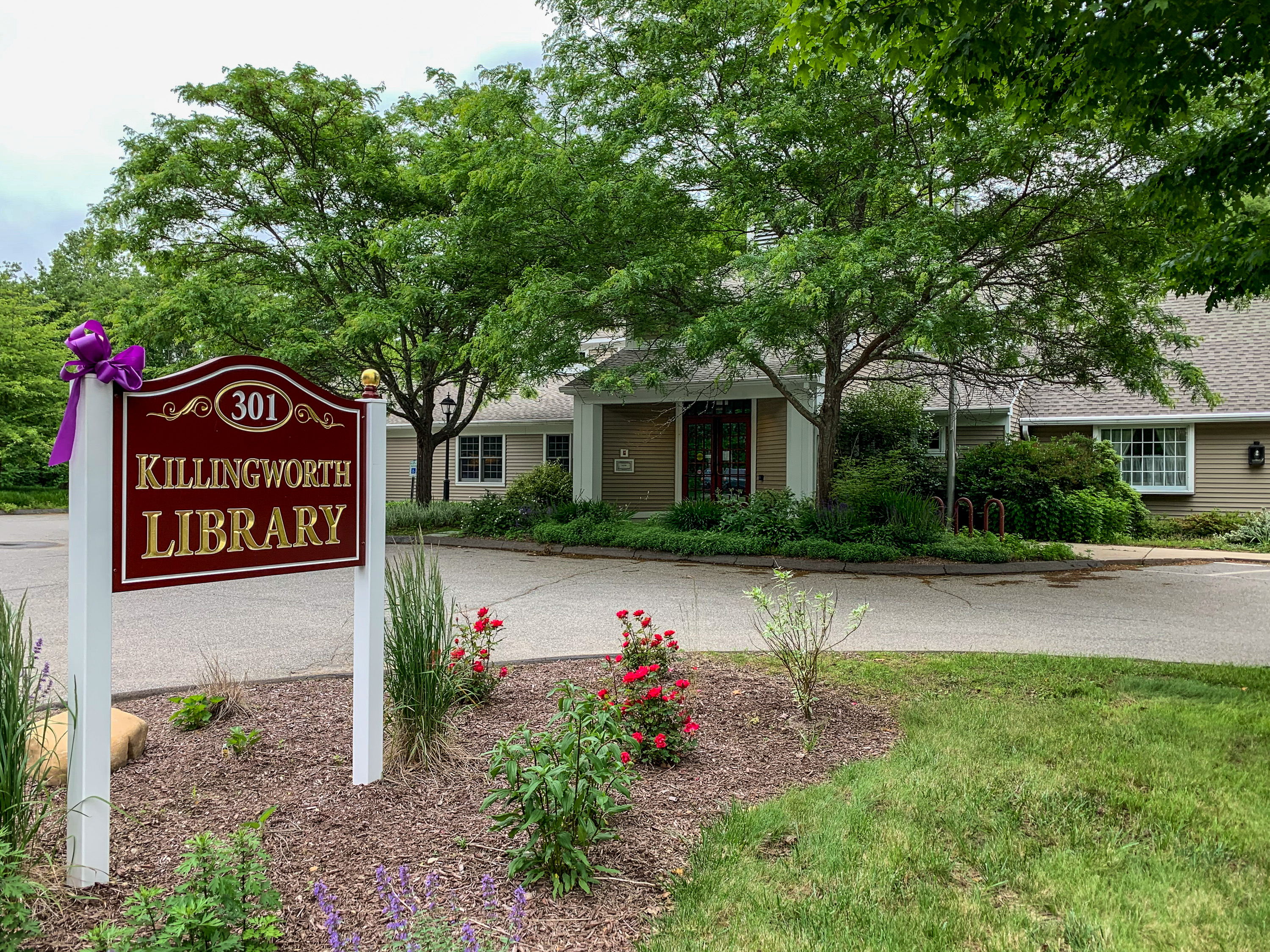 Killingworth (CT) Public Library